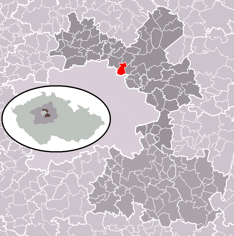 Location of Přezletice municipality within Prague-East District and administrative area of Brandýs nad Labem-Stará Boleslav as a Municipality with Extended Competence.